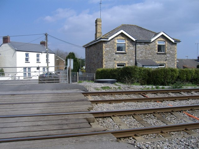 Level crossing, Ponthir The station house, on the right, is all that remains of the former GWR railway station.